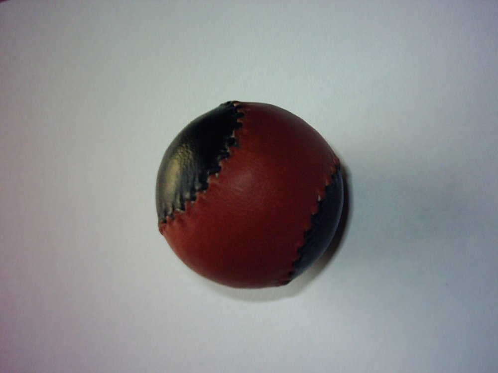 Badana ball used to play "llargues" or "galotxa" ("Valencian pilota" modalities)